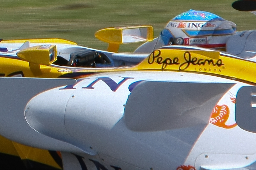 Fernando Alonso driving for Renault F1 at the 2008 British Grand Prix.